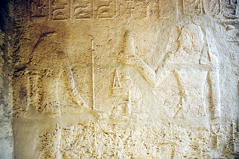 Relief at the right wall, left chapel, Temple of Renenutet, Madinat Madi, el-Fayyum, Egypt